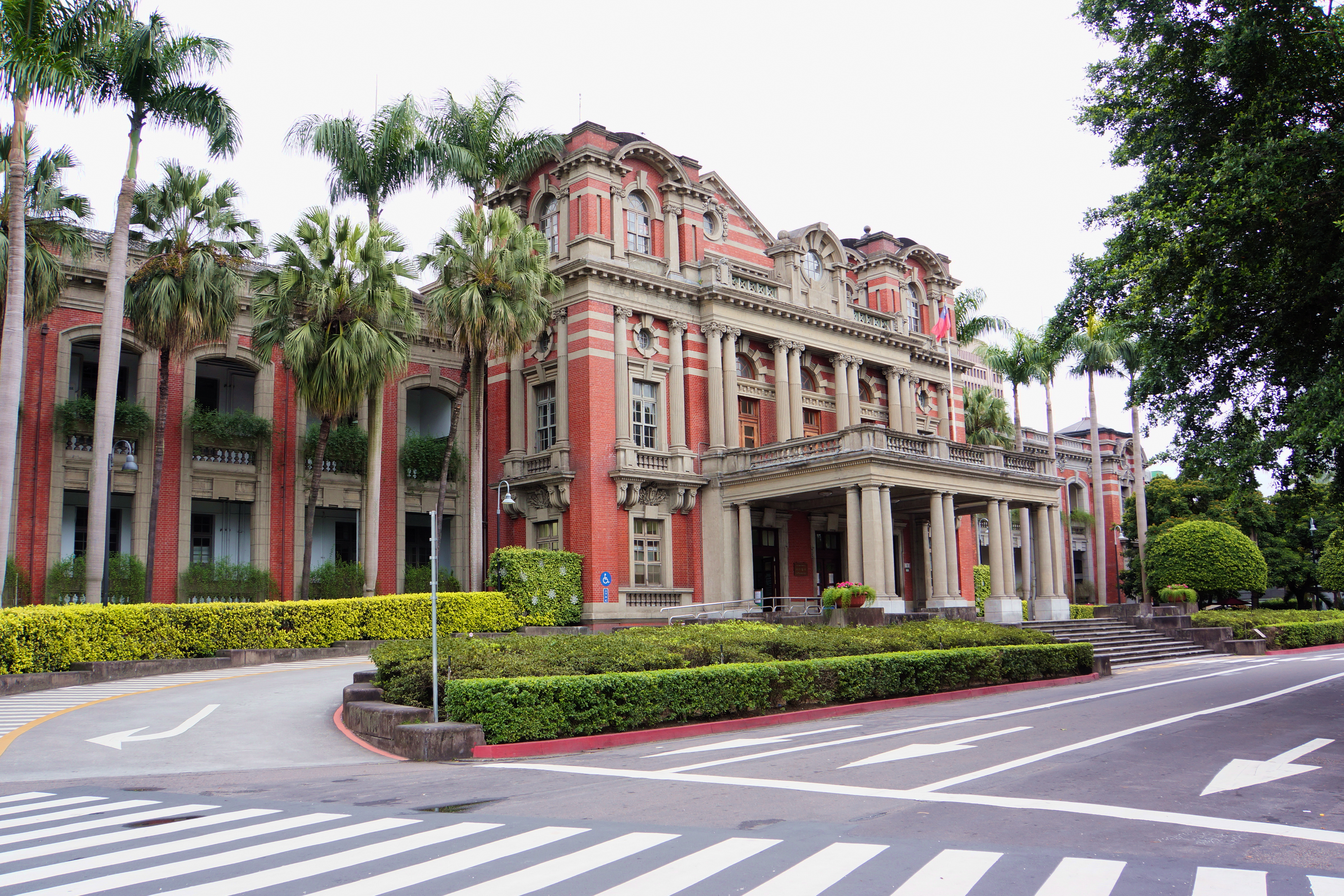 台大醫院舊館 Old Building of National Taiwan University Hospital